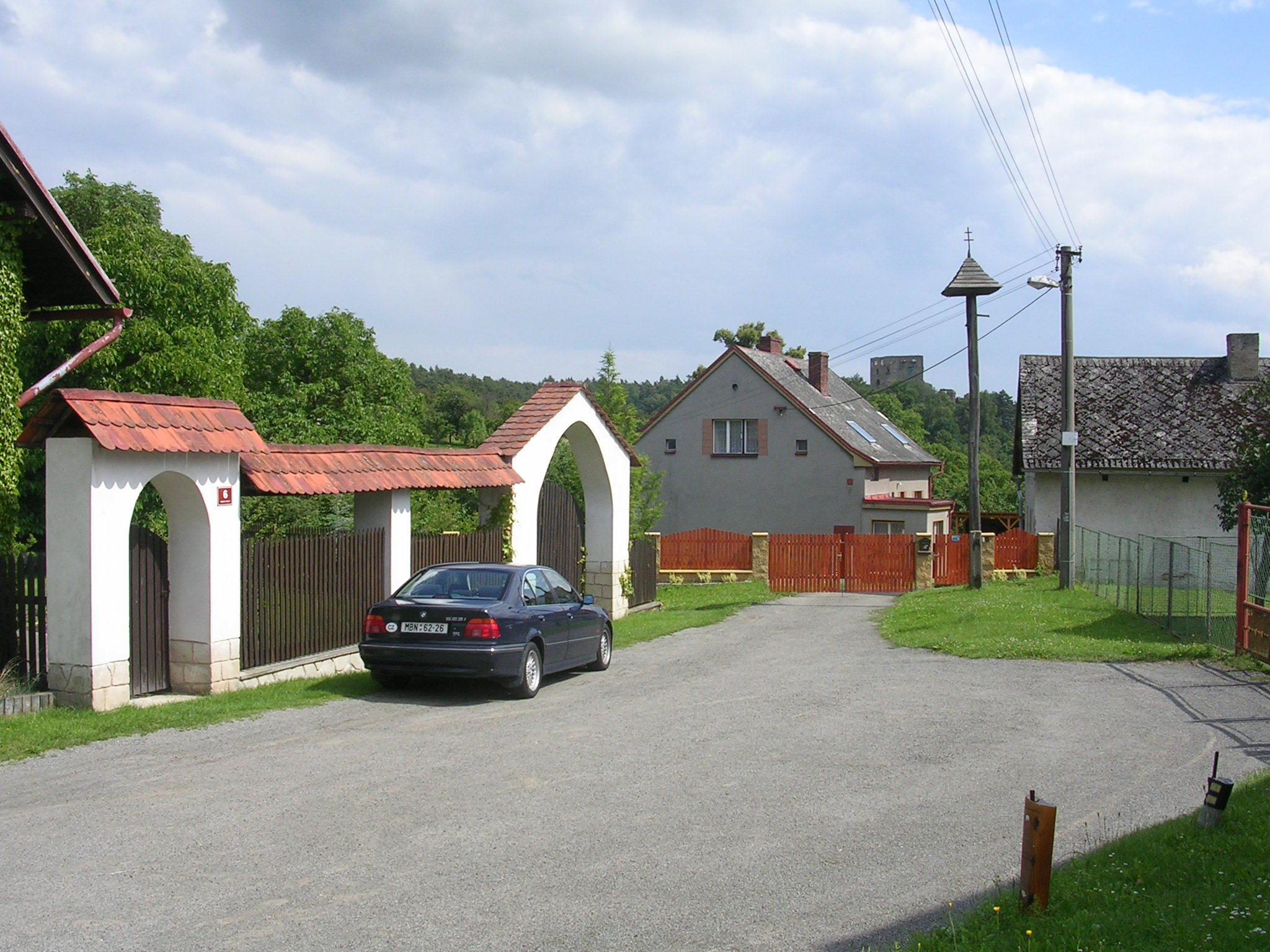 Boseň-Zásadka. (Mladá Boleslav District, Central Bohemian Region, the Czech Republic.)